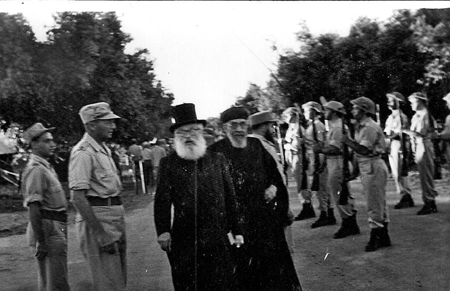 Rabbi Yitzchak Halevi Herzog and Rabbi Ben-Zion Meir Hai Uziel on their visit to the Tel Shomer IDF camp